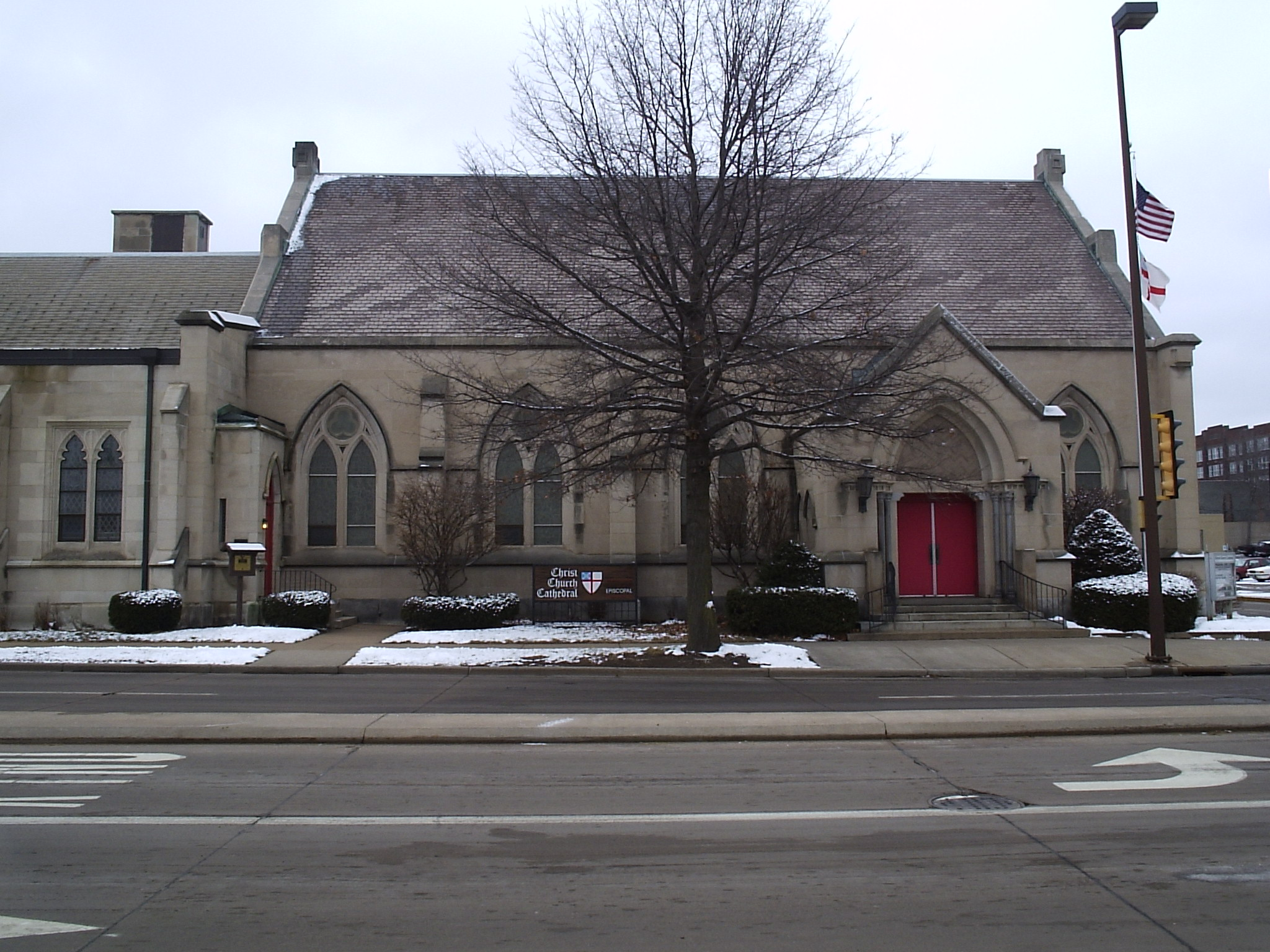 A pic of Christ Church Cathedral in Eau Claire from across Lake St.